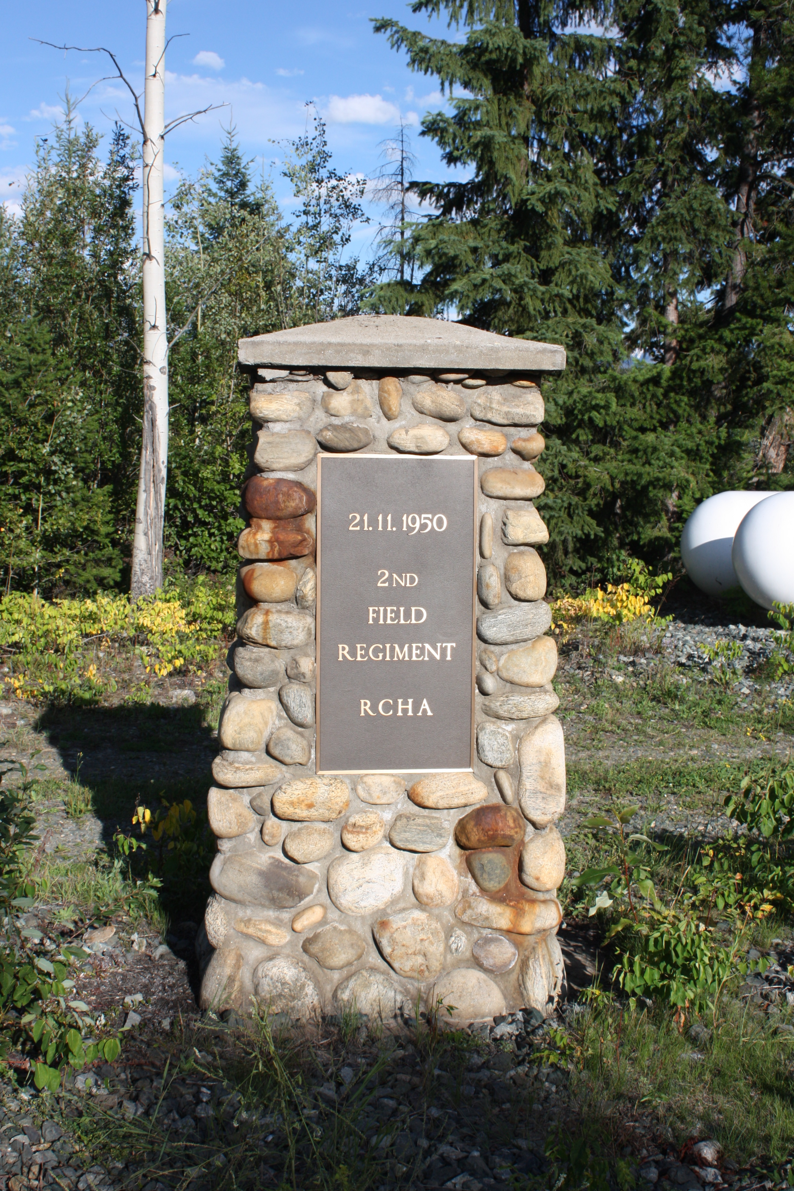 Canoe River cairn, erected to the memory of the 17 soldiers who died in the Canoe River train crash, Canoe River BC, south of Valemount, British Columbia. Note that the monument was erected in 1987, but the inscription is too simple to meet the originality threshold for copyright.